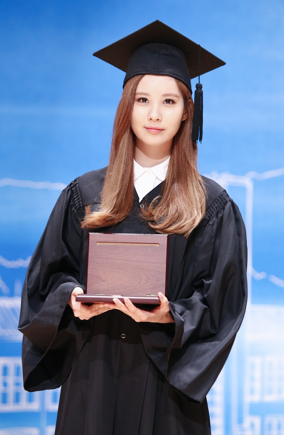 Seohyun at Dongguk University Graduation Ceremony on August 21, 2014.